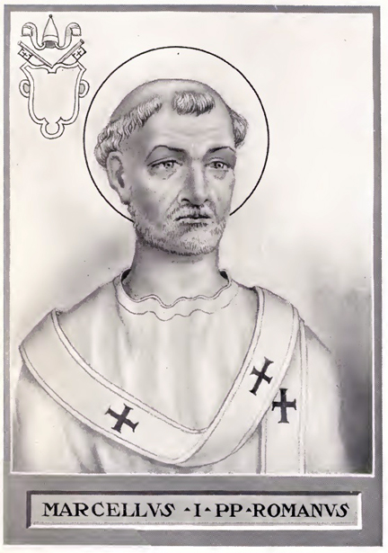 This illustration is from The Lives and Times of the Popes by Chevalier Artaud de Montor, New York: The Catholic Publication Society of America, 1911. It was originally published in 1842.